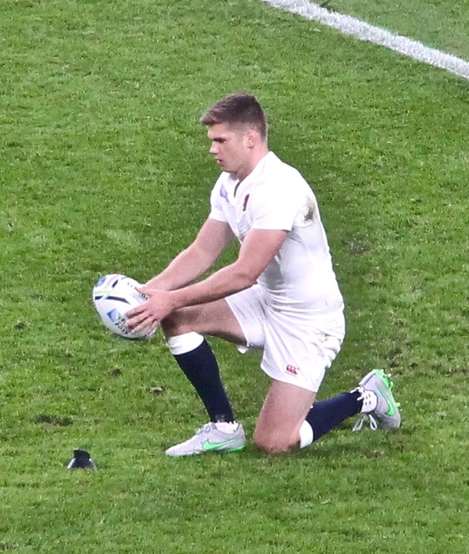 2015 Rugby World Cup match between England and Australia at Twickenham Stadium, London.